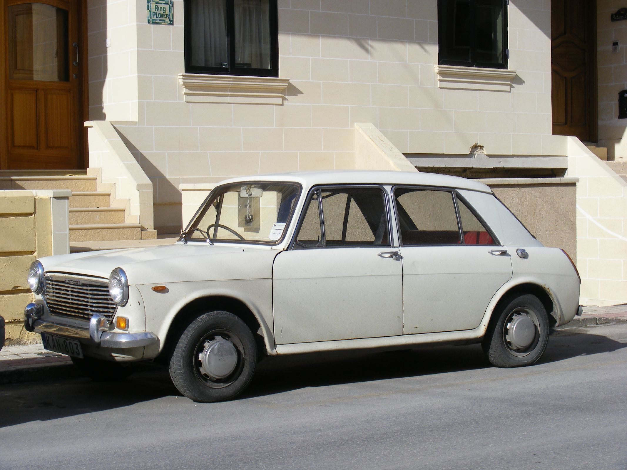 Just like my dad had in the mid 1960s. Apart from the colour.